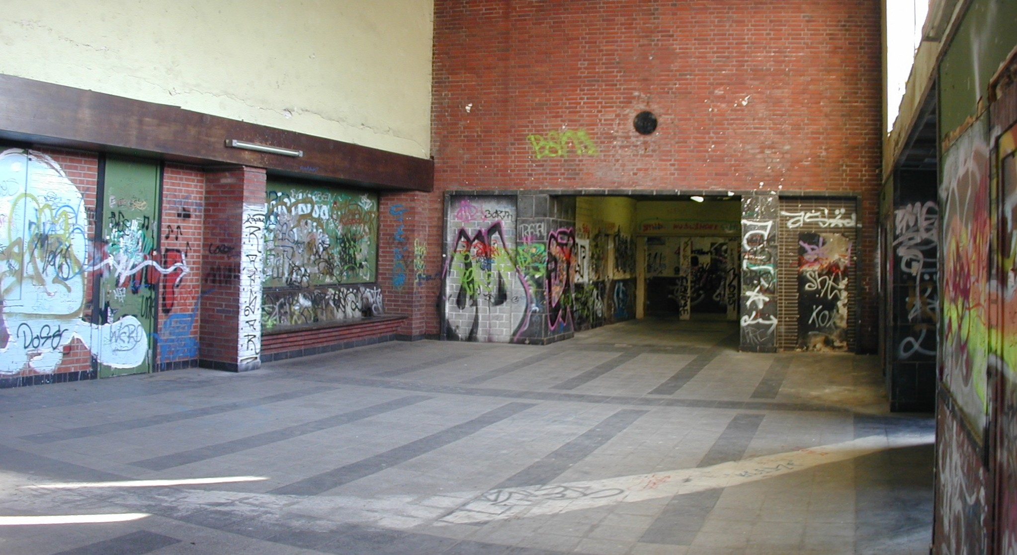 Bahnhof Duisburg-Wedau This panoramic image was created with Autostitch (stitched images may differ from reality).